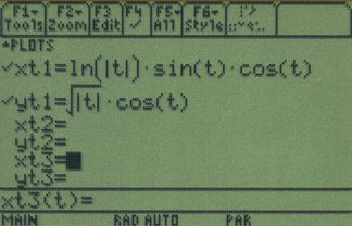 parametric equation of heart curve on ti-89 graphics calculator